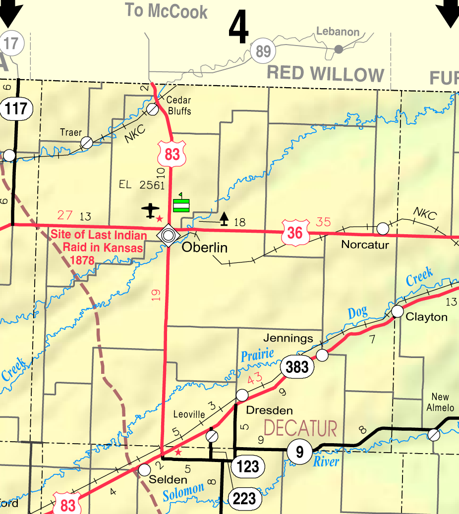 This map of Decatur County, Kansas, USA, is copied at a resolution of 300 pixels/inch from the original PDF file.